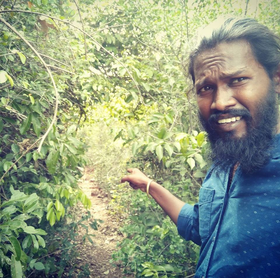 this is picture of kumar shaw